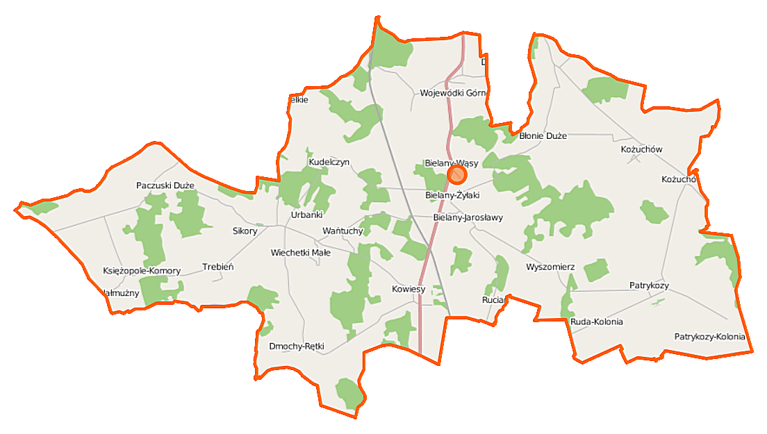 Map of Gmina Bielany, Poland This map of Bielany (gmina) was created from OpenStreetMap project data, collected by the community. This map may be incomplete, and may contain errors. Don't rely solely on it for navigation.